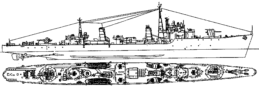 Image:Matsu_class_Line_Drawing.gif